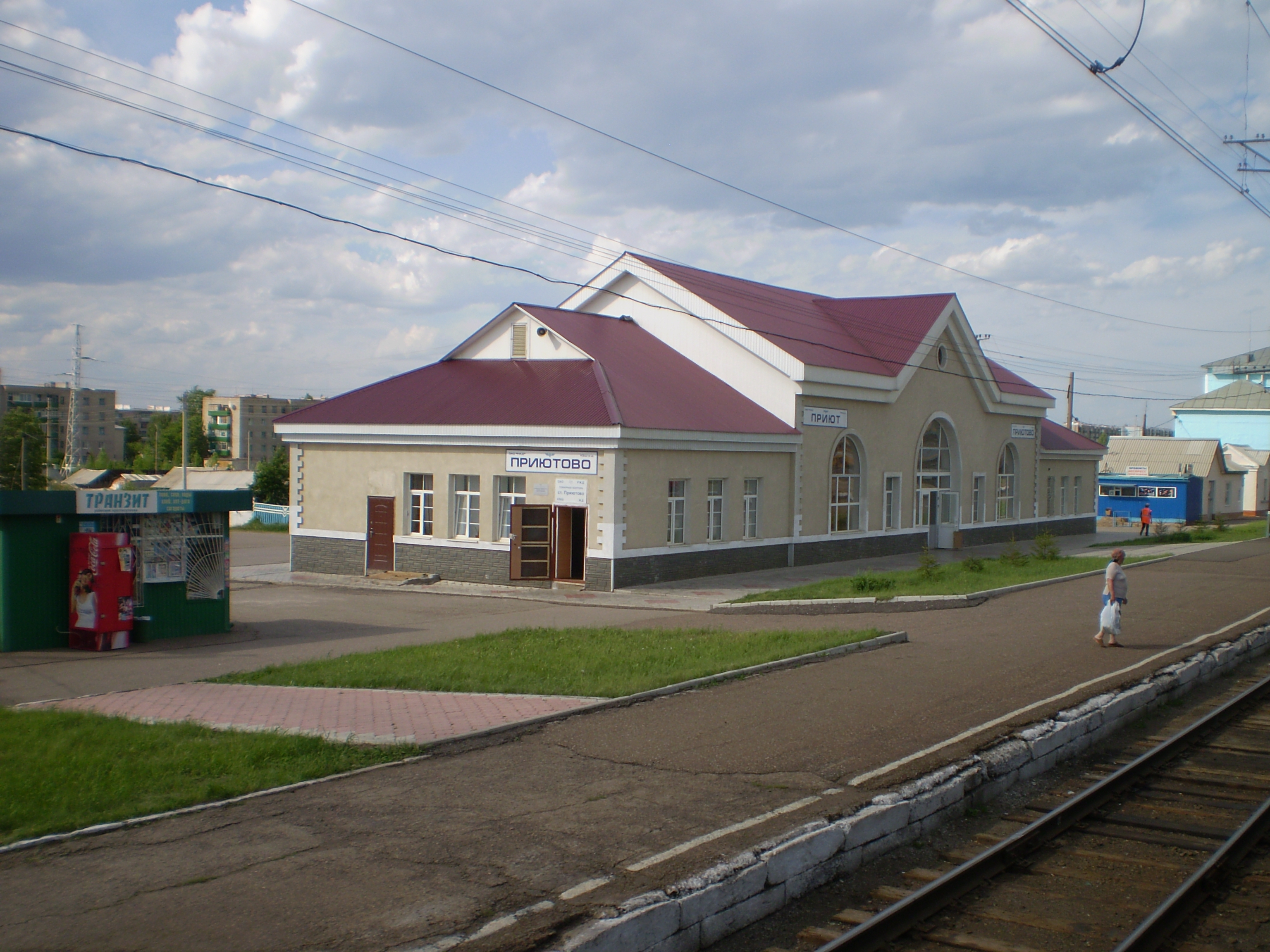 Prijutovo railstation. Kujbishevskaya railroad